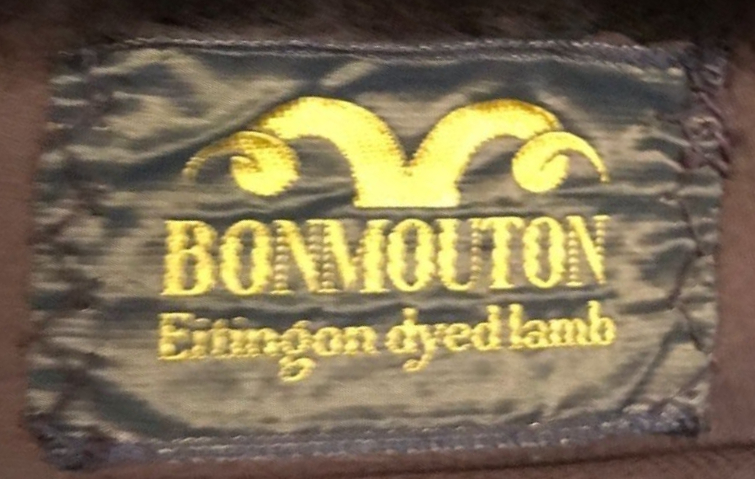 Bonmouton, Eitingon dyed lamb. Cloth label.